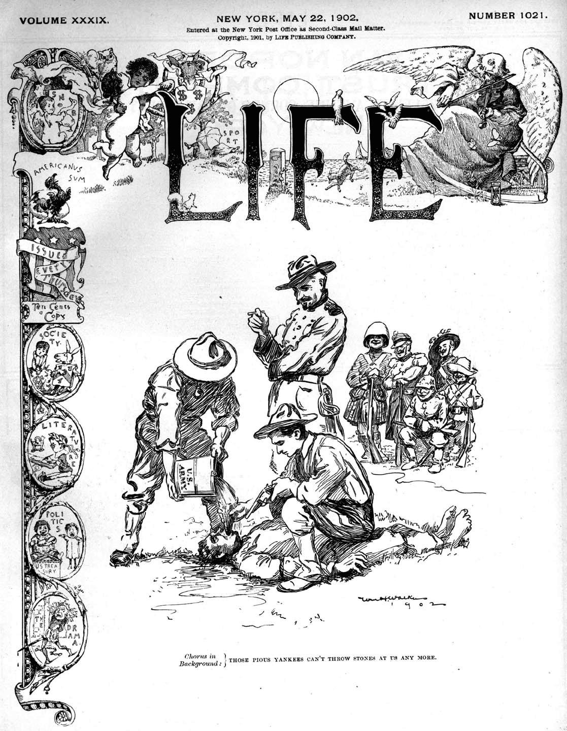 Cartoon depicting the application of the "water cure" by United States Army soldiers on a Filipino. In the background soldiers representing various European nations look on smiling. The Europeans say, "Those pious Yankees can't throw stones at us any more", meaning that the USA no longer has the moral standing to criticize European colonial practices. Cover of Life magazine, Vol. 39, #1021 first published on May 22, 1902